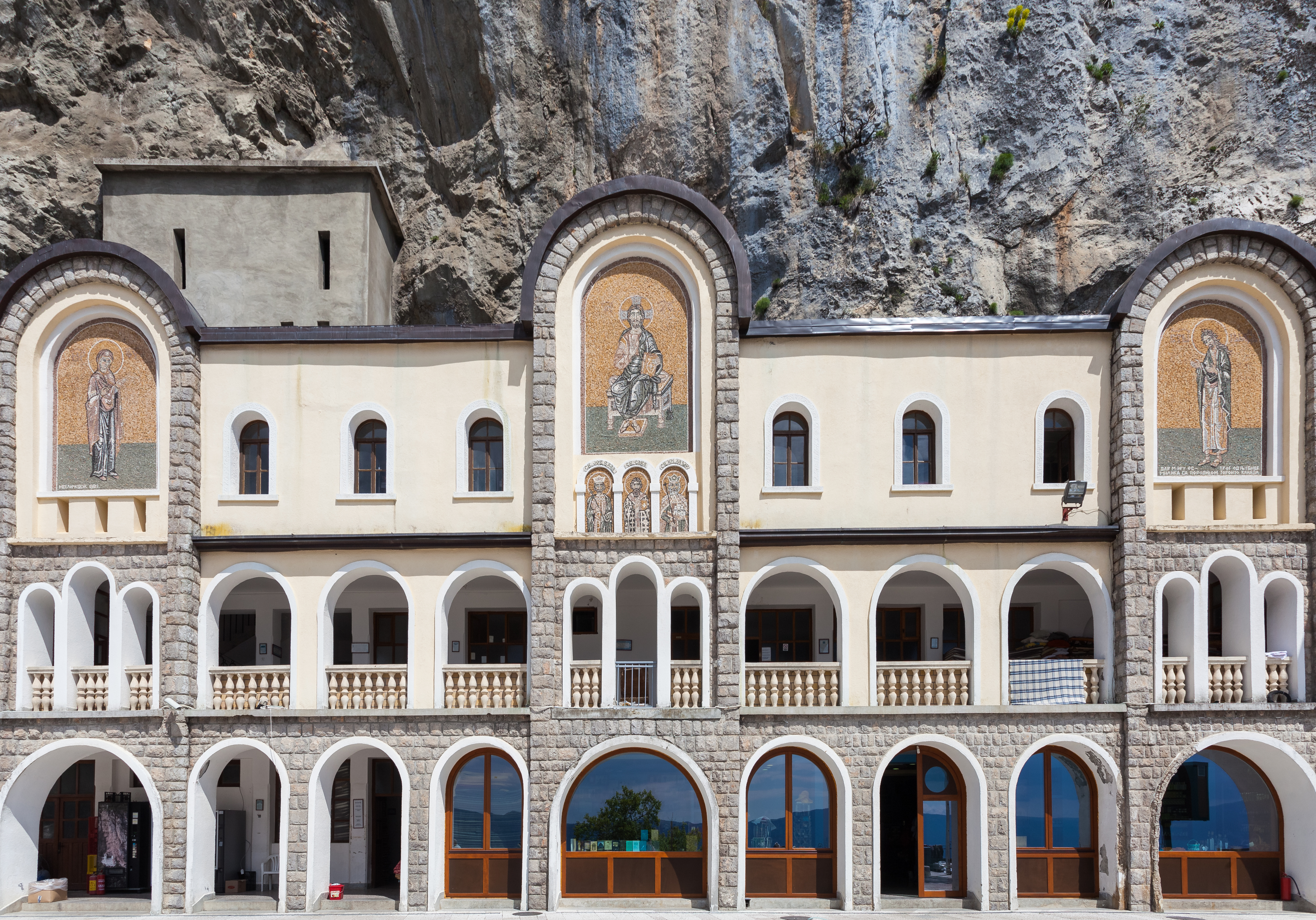 Esplanade of the Ostrog monastery, Montenegro